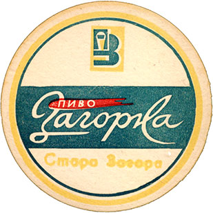 Zagorka beermat